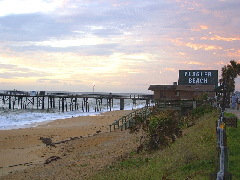 Scenic view of Flagler Beach and Pier